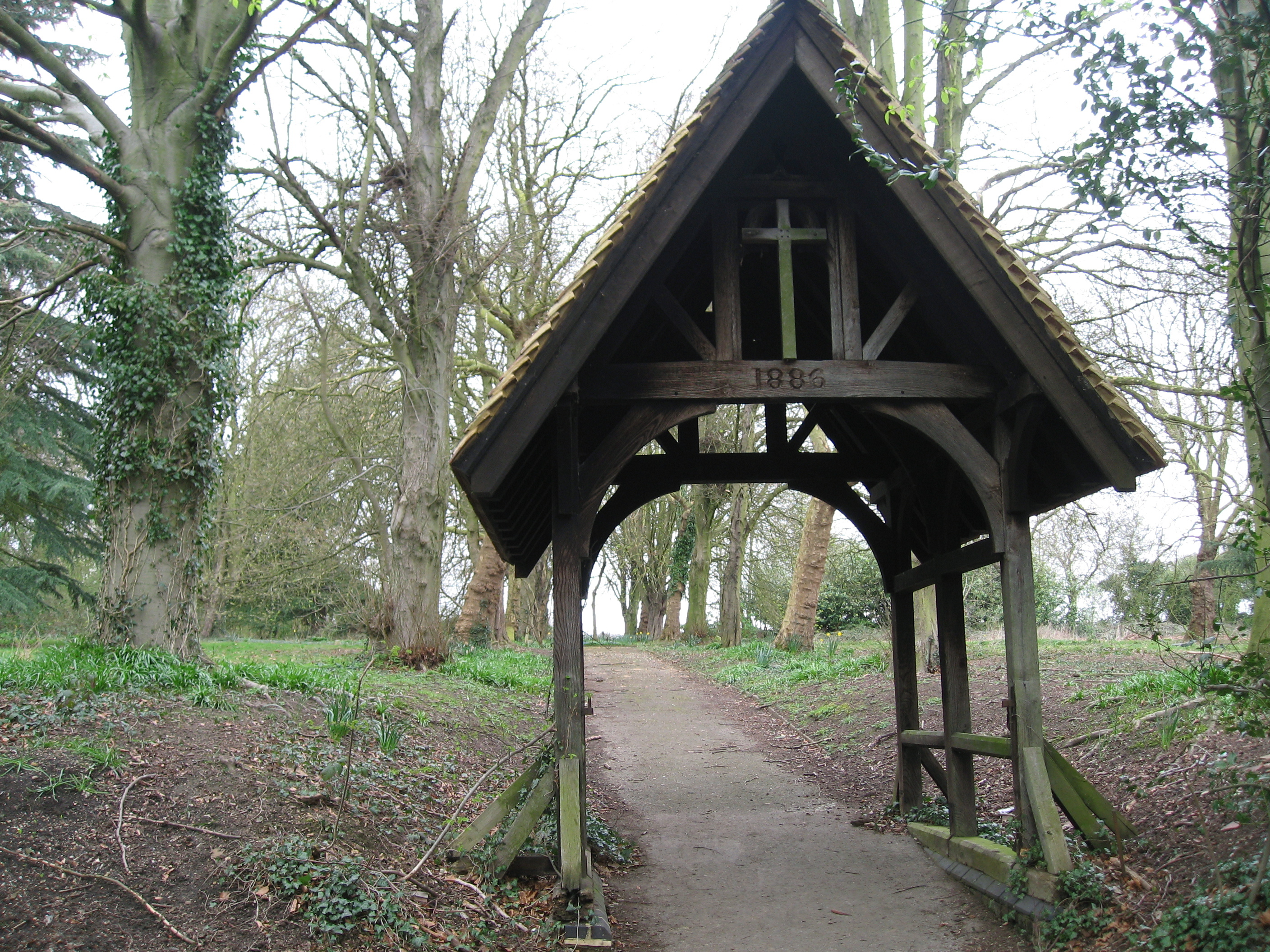 East Lane Cemetery, Abbots Langley. Cemetery serving Leavesden Mental Hospital